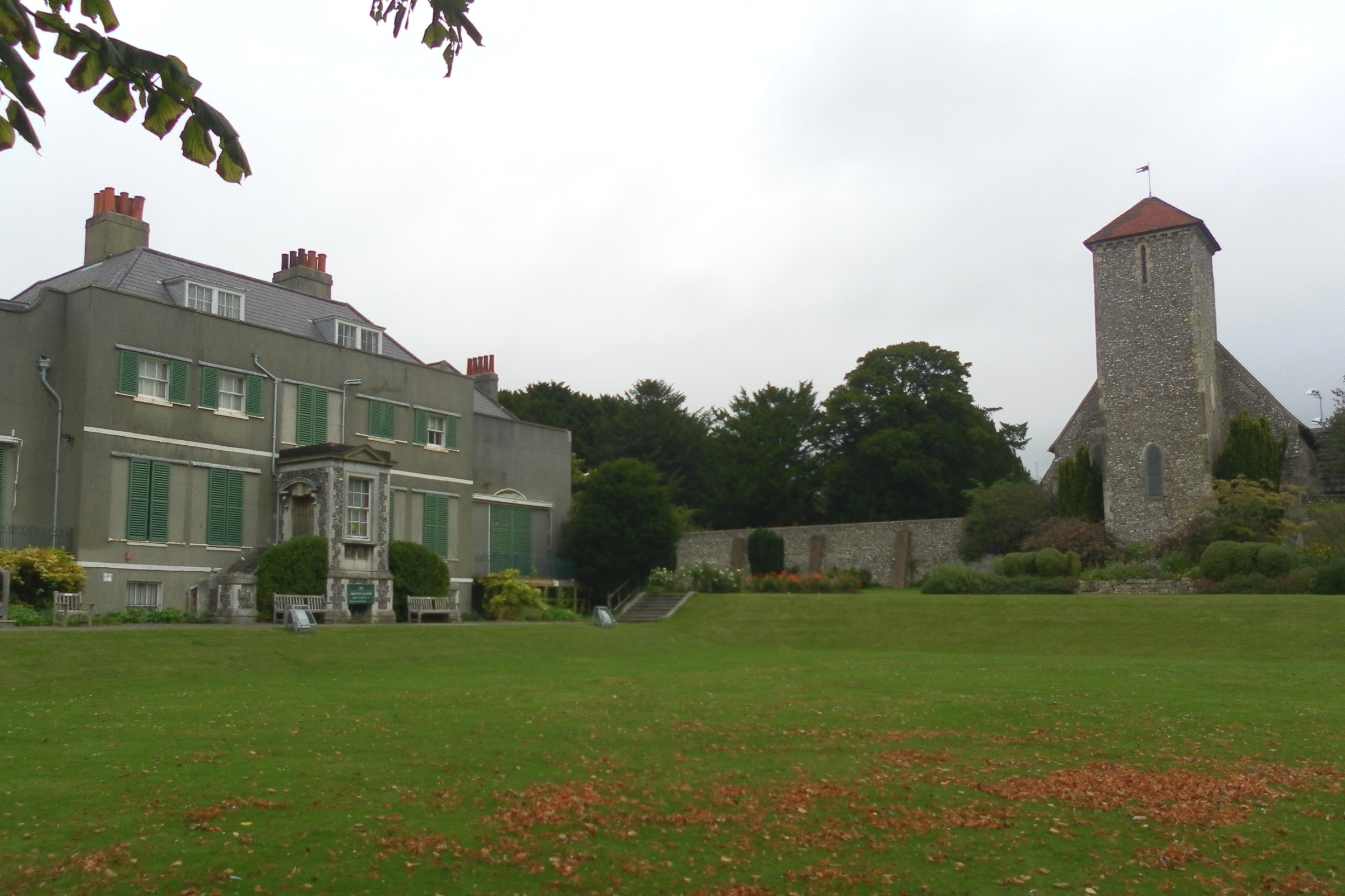 Preston Manor, Preston Park, City of Brighton and Hove, England. This view shows the rear elevation, the lawn behind it and the ancient St Peter's Church.